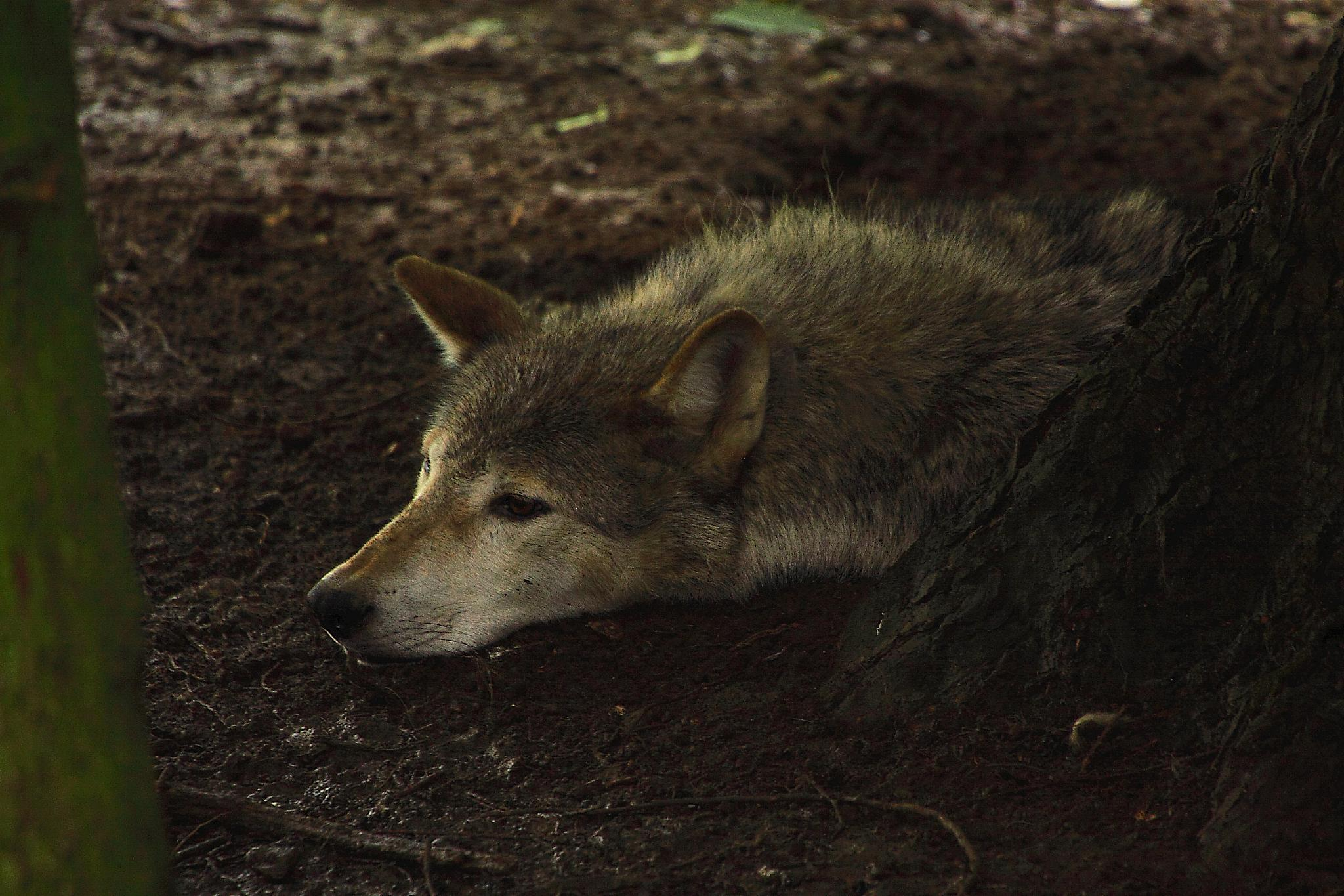 Canadian Timber Wolf - Cotswold Wildlife Park